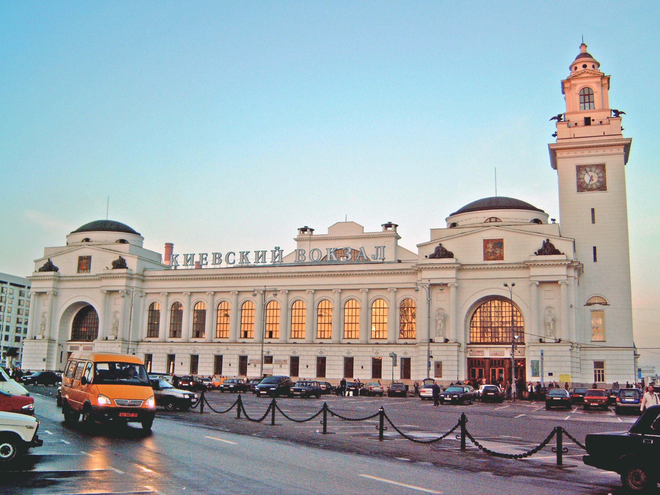 Kievski Rail Terminal, Moscow